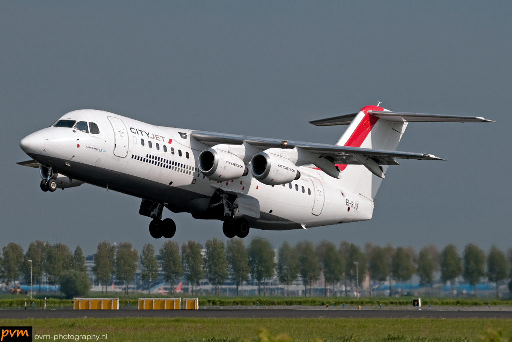 British Aerospace Avro RJ85 Amsterdam schiphol [AMS / EHAM] 22-05-2010